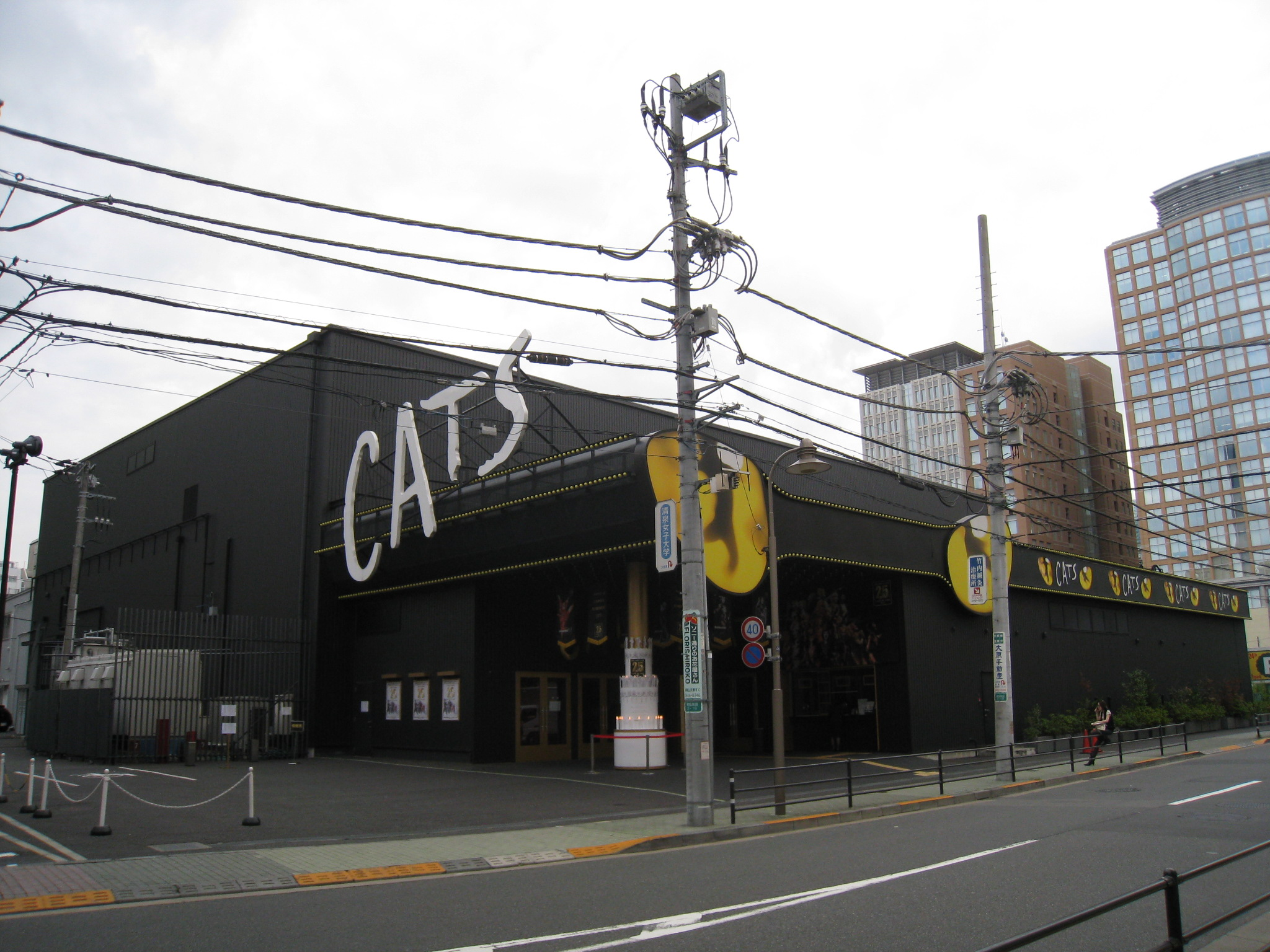 CATS THEATER, at Higashi-Gotanda, Shinagawa, Tokyo, Japan